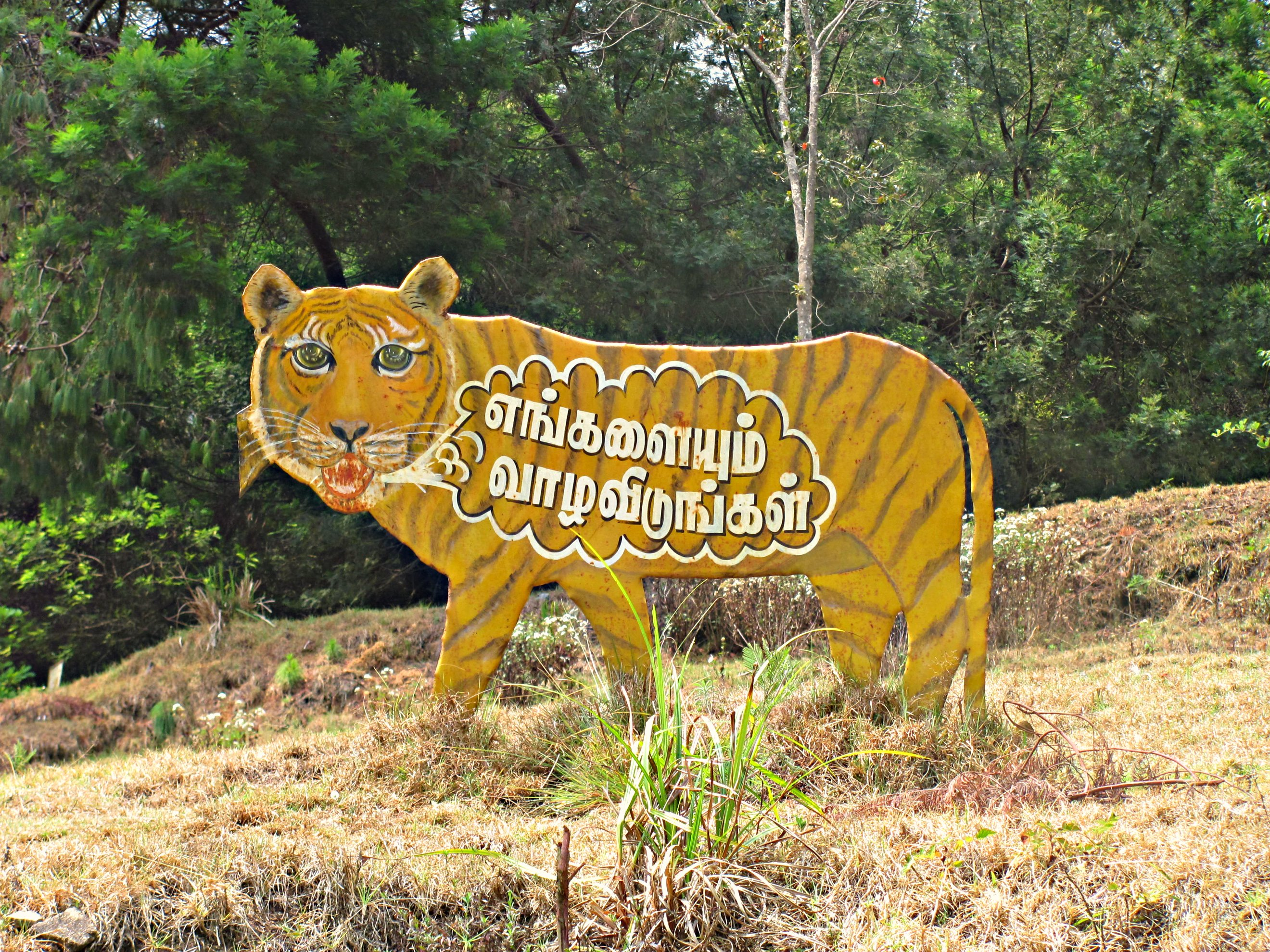 Save Our Tigers...The Tamil phrase on the tiger sign board meaning " Let us also Live".....caught at the Berijam lake in Kodaikanal....